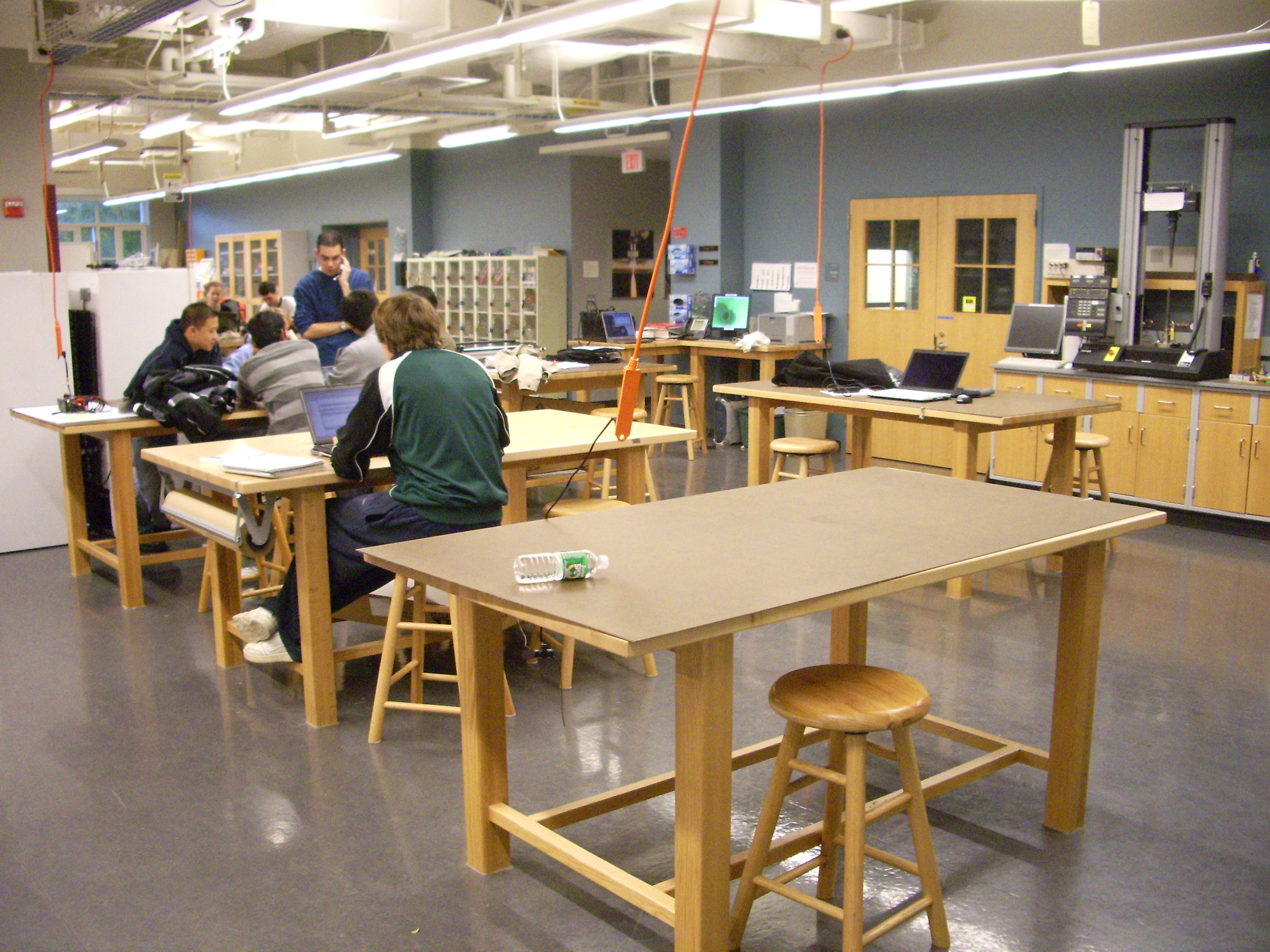 Photograph of students in the Project Lab at the Thayer School of Engineering.